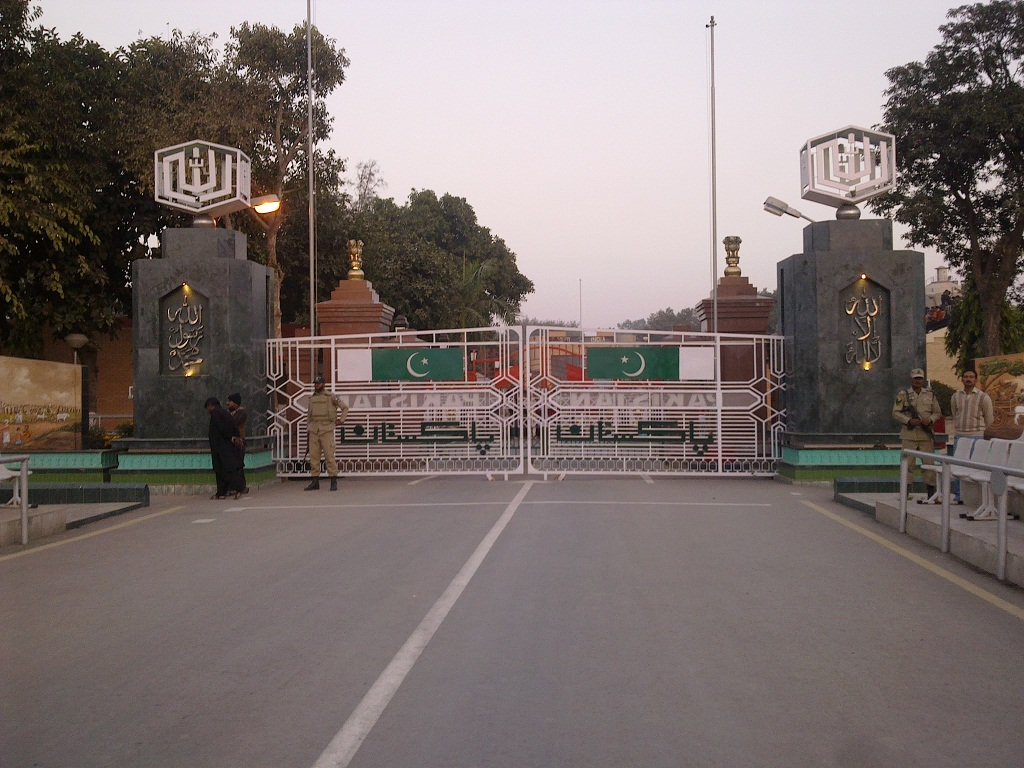 The Border between Pakistan and India. This Picture was Taken from Pakistan side Lahore right before Flag Ceremony.